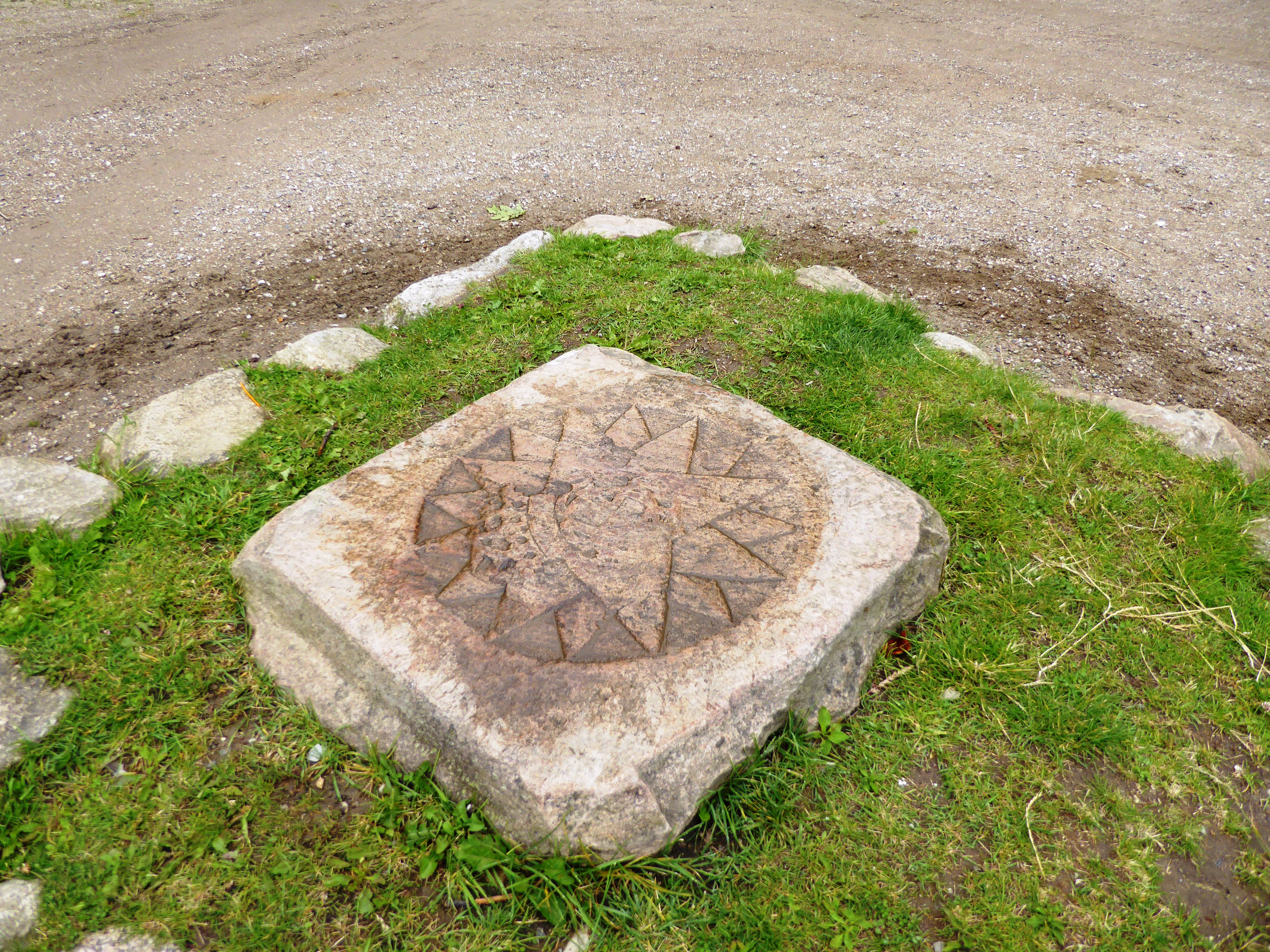 Kongestenen at the centre of Store Dyrehave in Hillerød, Denmark